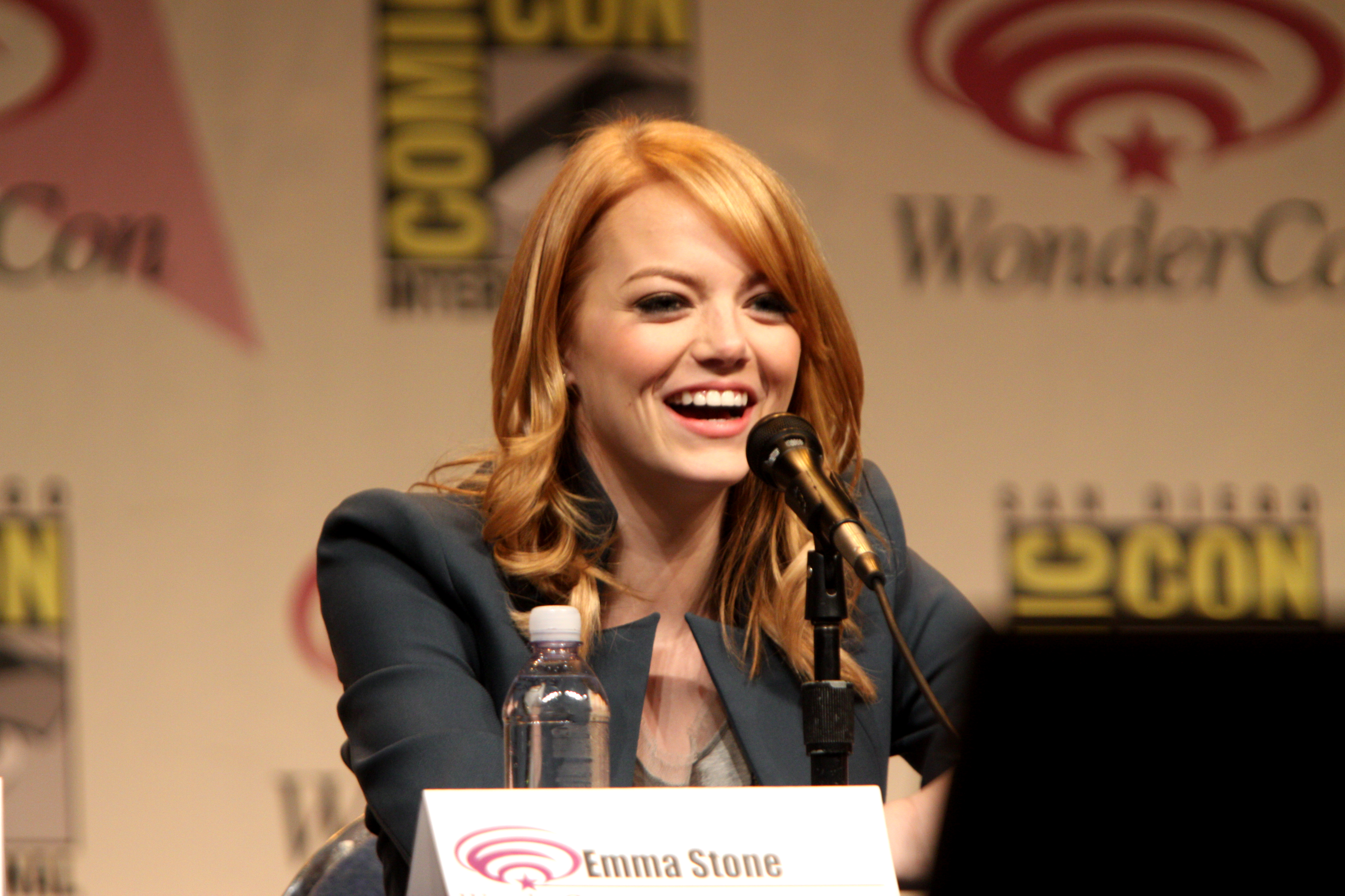 Emma Stone speaking at the 2012 WonderCon in Anaheim, California.